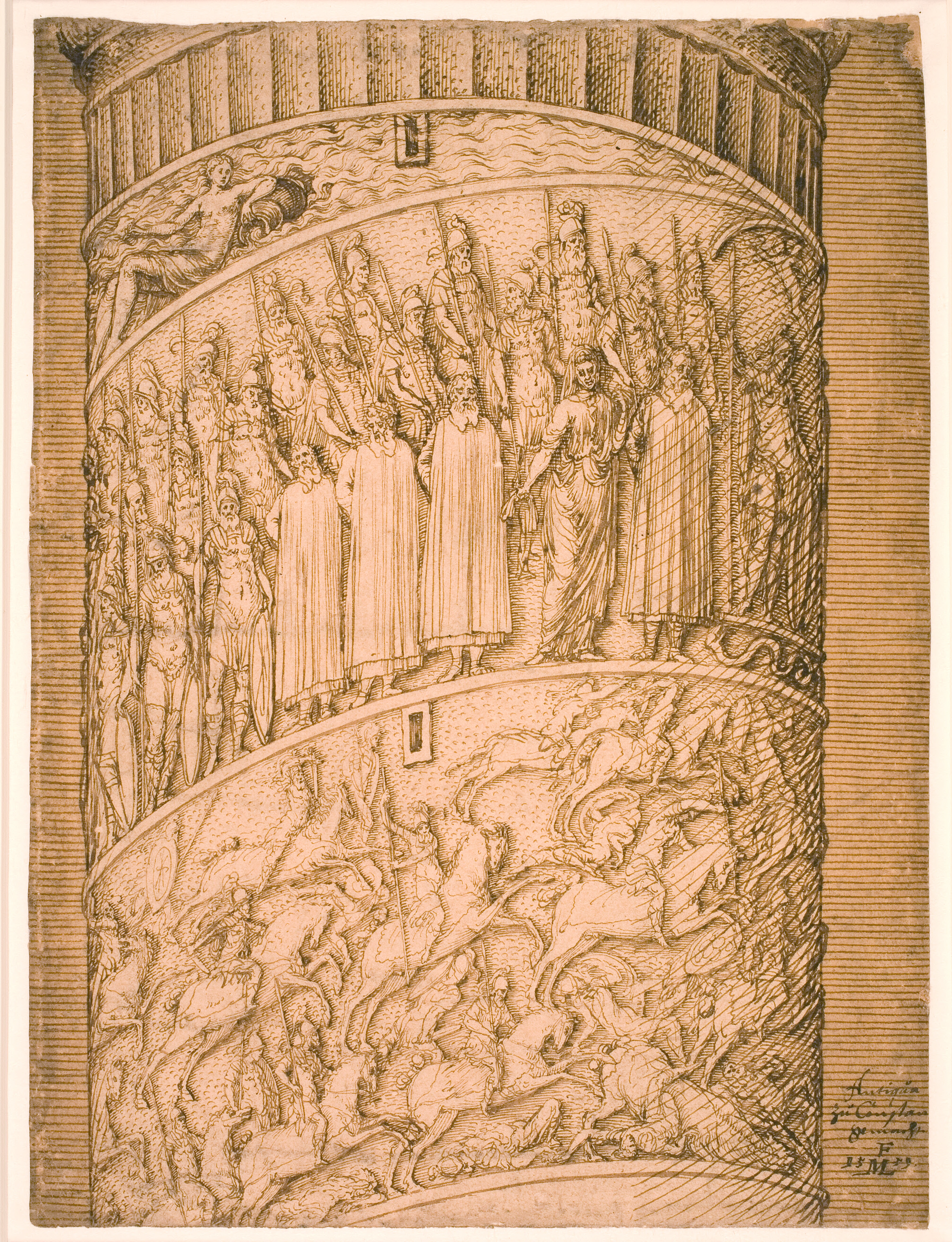 The Upper Section of the Column of Arcadios in Constantinople. Pen, brown ink, brush, brown wash. 292x217 mm In exchange 1934 Inv. no.: KKS13188